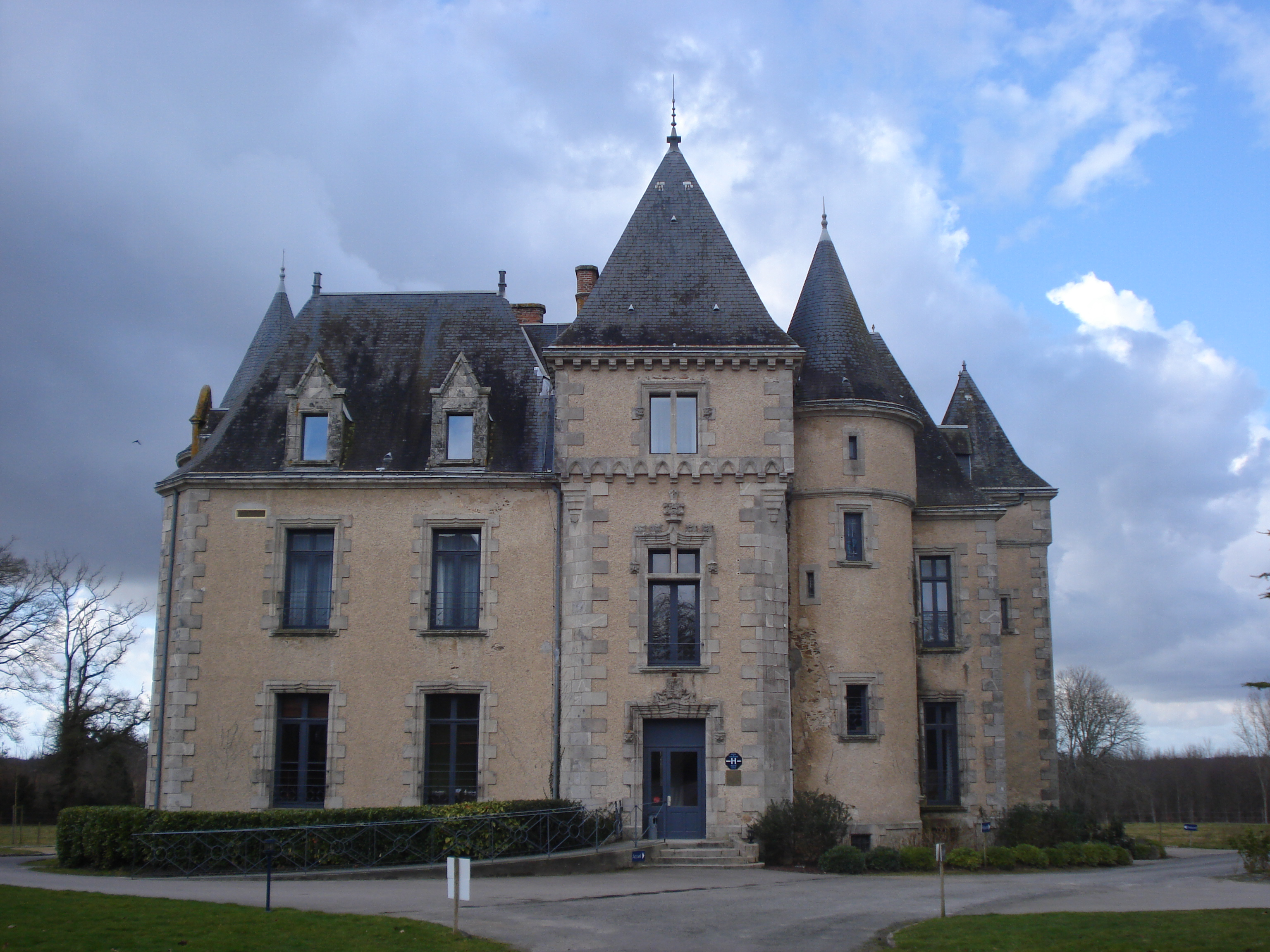 Picture of the Chateau of the Domaine de Brandois.